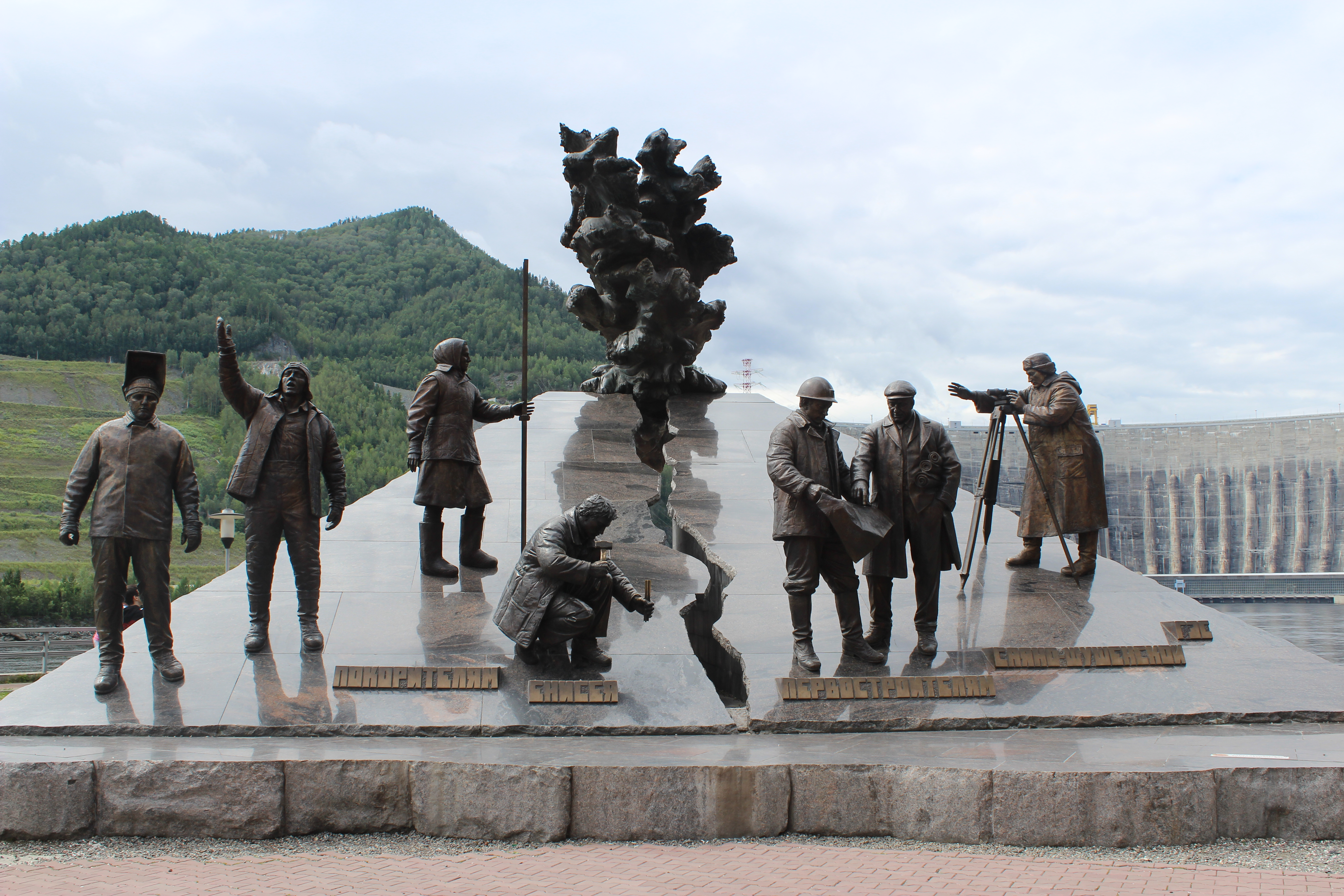 Monument near the Sayano–Shushenskaya Dam in Russia.